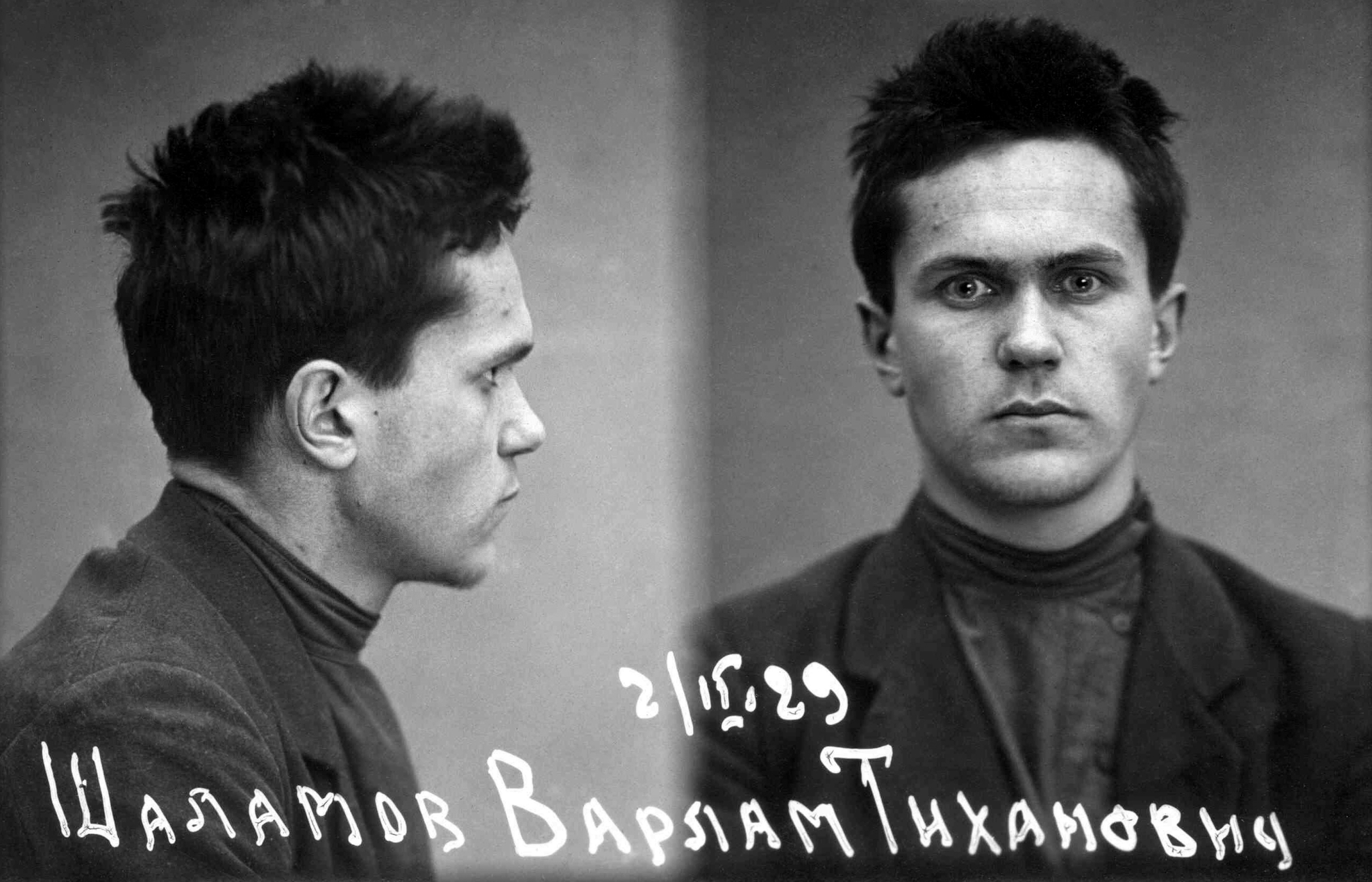 Varlam Tikhonovich Shalamov after first arrest, 1929.